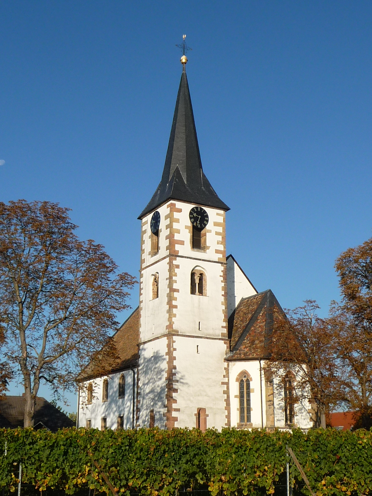 Protestantische Kirche Friedelsheim